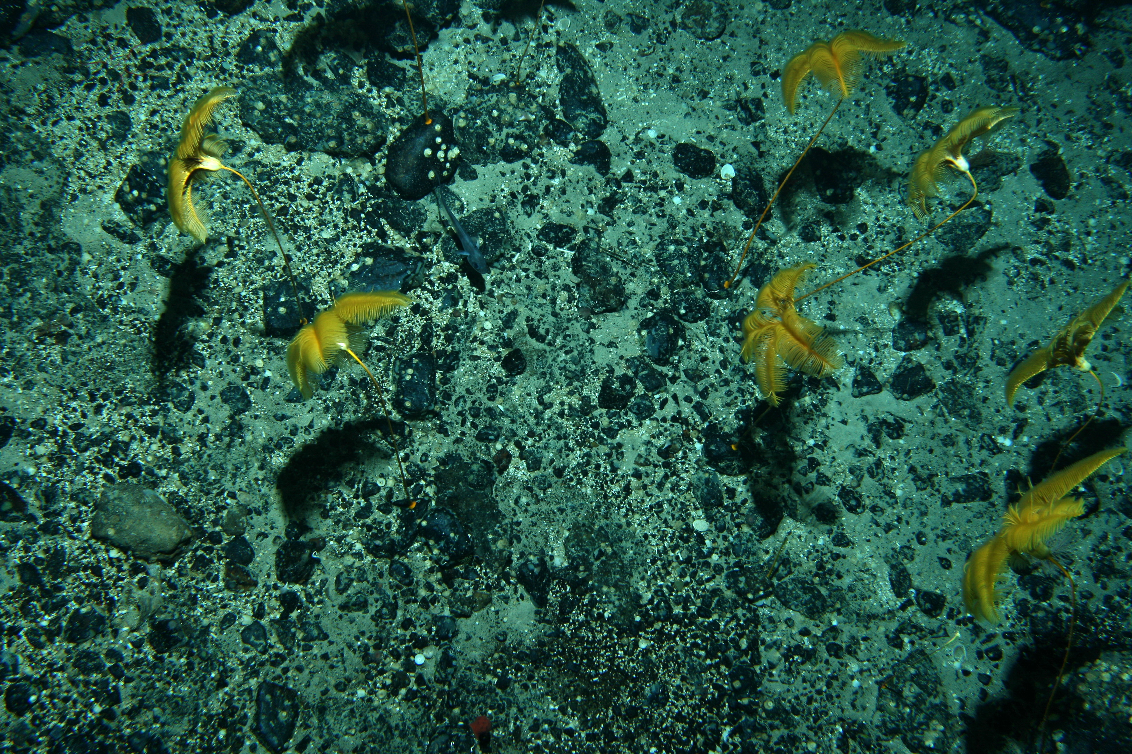 Ptilocrinus amezianeae Eléaume, Hemery, Bowden & Roux, 2011.Meadows of the new species of Ptilocrinus amezianeae observed along a southeastern knoll of the Admiralty seamount, around 600 m.